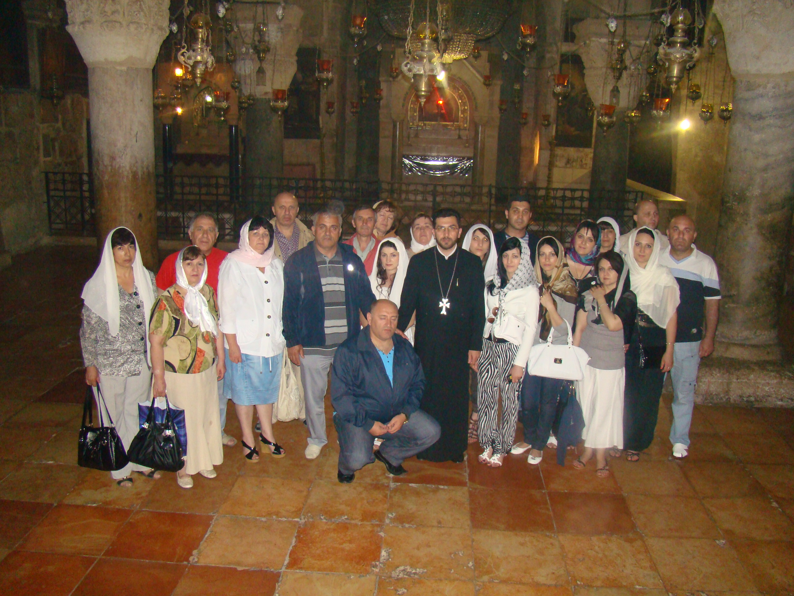 Sourb Gevorg church in Holy Land